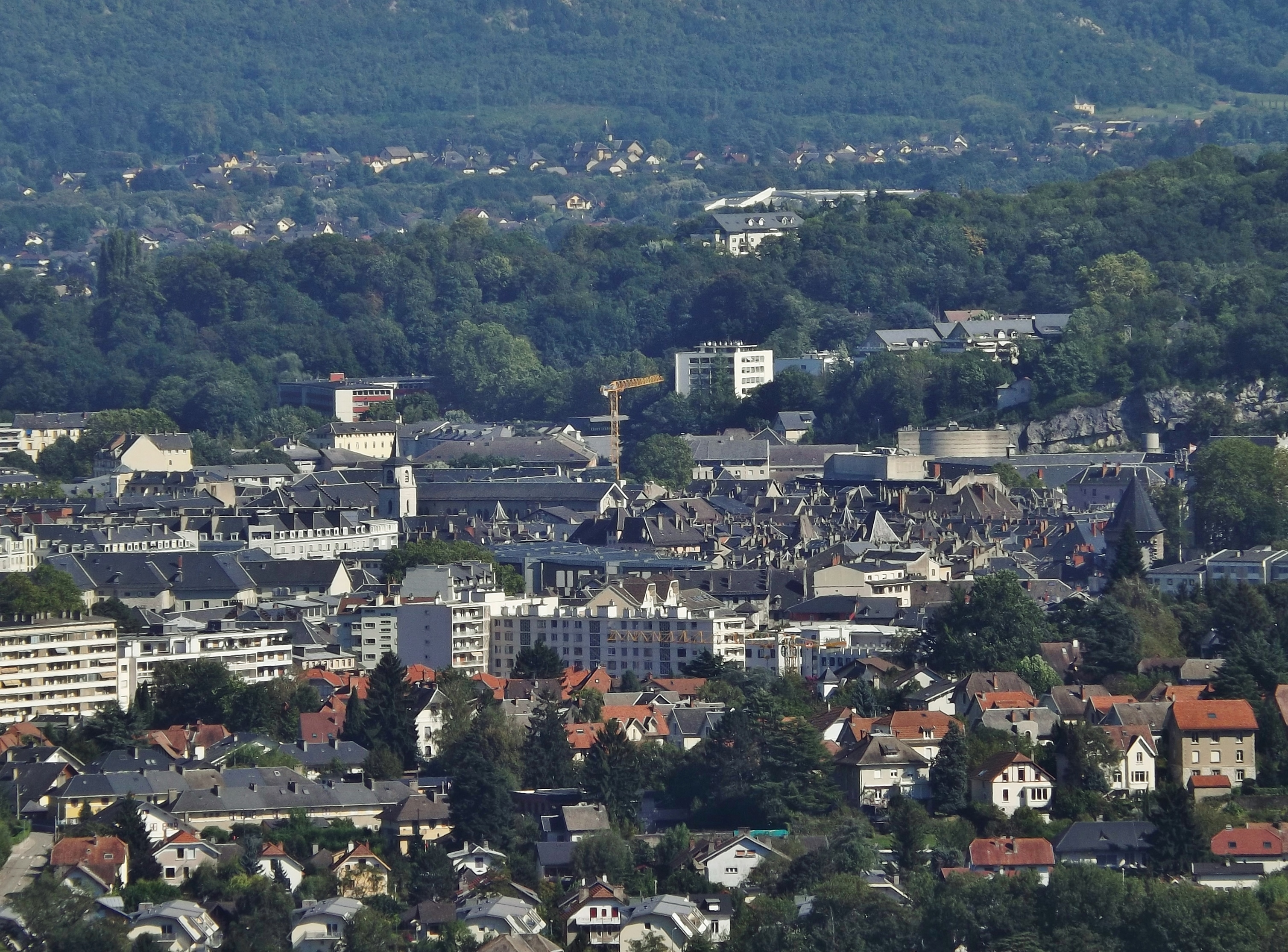 Panoramic sight of the city of Chambéry center and old center, from the heights of Chamoux neighborhood, in Savoie, France.